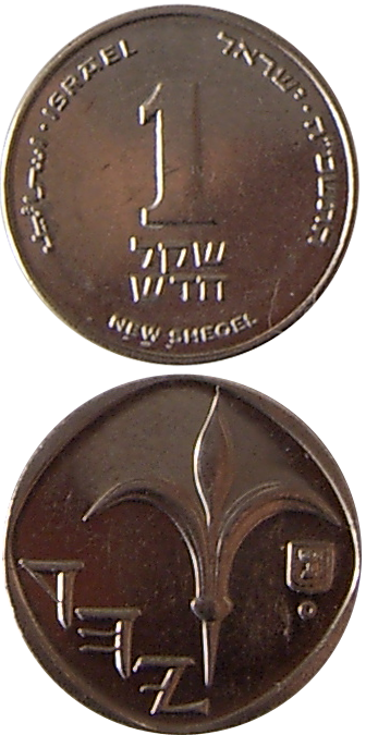 1 NIS coin - התשס"א Reverse is based on ancient coin, and has Aramaic name of Judea (יהד) in ancient script.